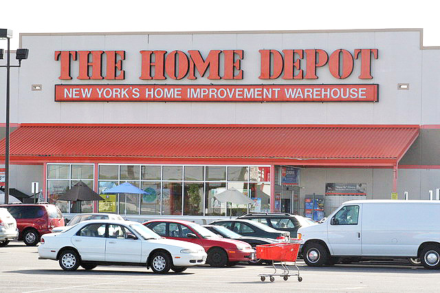 Home Depot Storefront